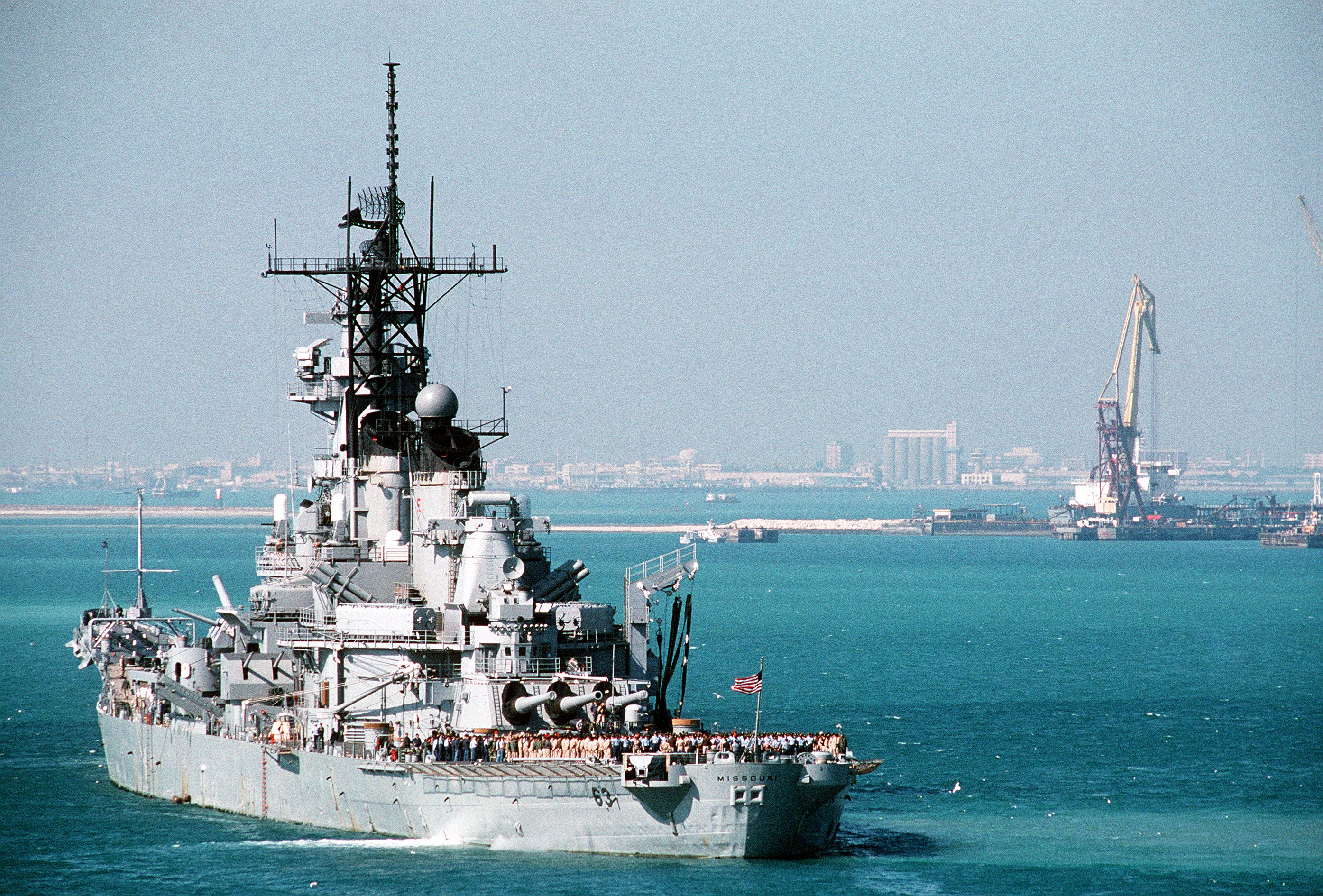 2790 x 1890 pixels - 3,985 KB Released to Public ID: DN-ST-91-05987 Service Depicted: Navy Operation / Series: DESERT STORM The battleship USS MISSOURI (BB-63) lies at anchor in a Persian Gulf region port during Operation Desert Storm.